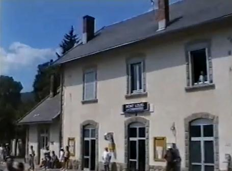 Train station of Montlluís, in the French commune of La Cabanasse